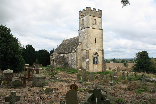 St Arild's parish church, Oldbury-on-the-Hill, Gloucestershire, seen from the northwest